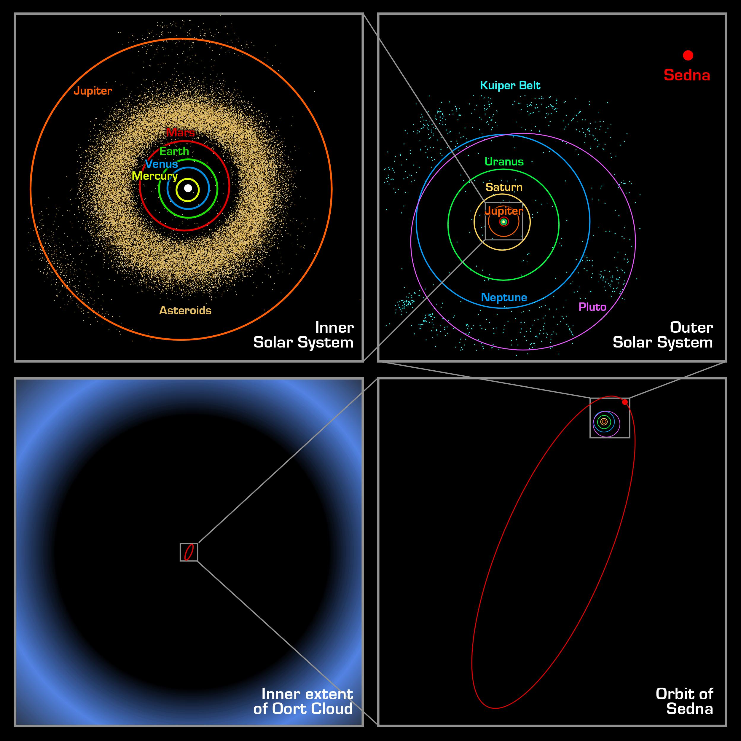 These four panels show the location of trans-Neptunian object 90377 Sedna, which lies in the farthest reaches of the Solar system. Each panel, moving clockwise from the upper left, successively zooms out to place Sedna in context. The first panel shows the orbits of the inner planets and Jupiter; and the asteroid belt. In the second panel, Sedna is shown well outside the orbits of Neptune and the Kuiper belt objects. Sedna's full orbit is illustrated in the third panel along with the object's location in 2004, nearing its closest approach to the Sun. The final panel zooms out much farther, showing that even this large elliptical orbit falls inside what was previously thought to be the inner edge of the spherical Oort cloud: a distribution of cold, icy bodies lying at the limits of the Sun's gravitational pull. Sedna's presence suggests that the previously speculated inner disk on the ecliptic does exist.